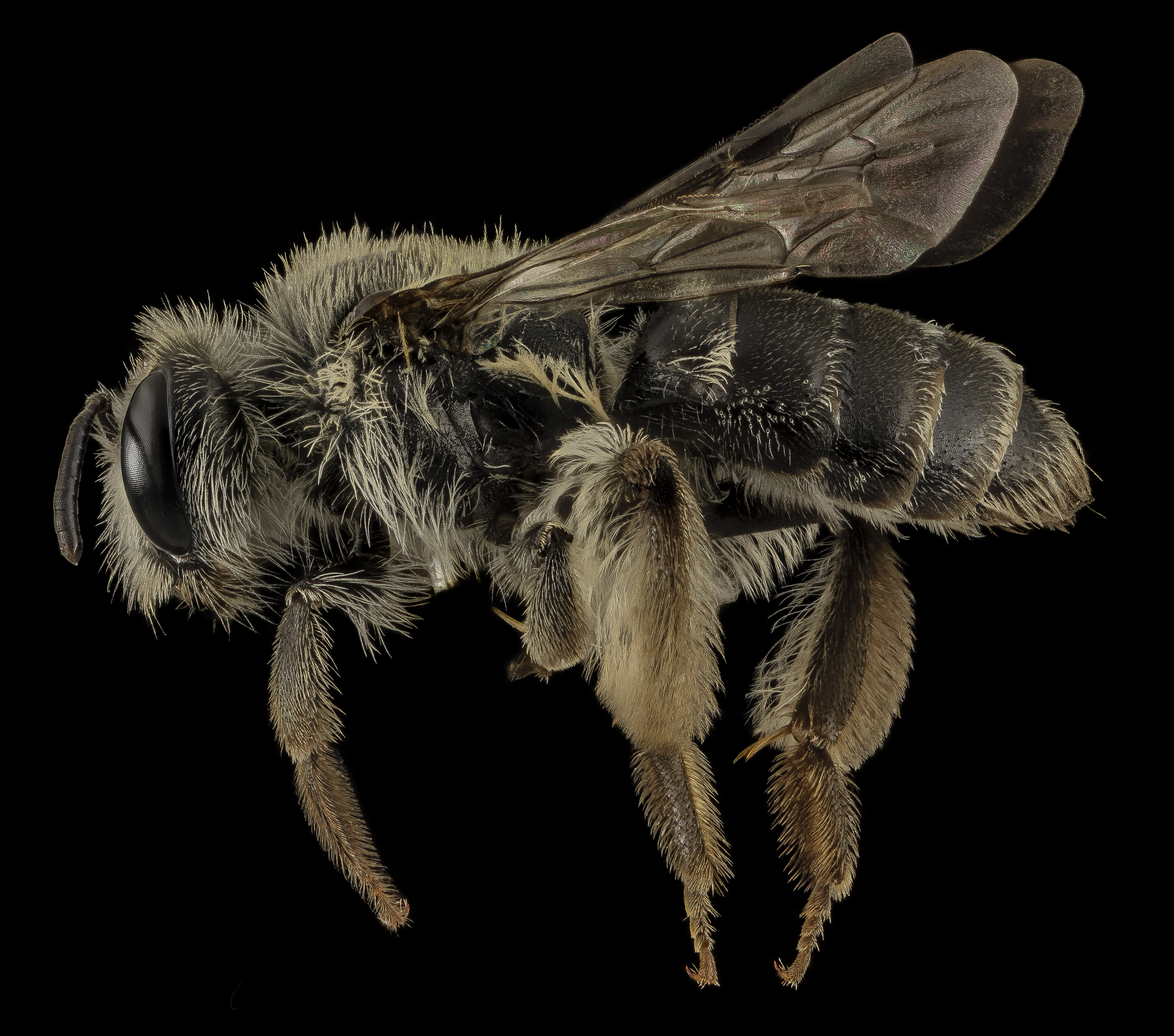 From George Washington's Birthplace comes a fall Frost Aster specialist. One of about 6 or so species that specialize on the pollen of Asters and sometimes Goldenrods, these species are uncommonly collected but likely more because people are not looking that true uncommoness. Picture by Brooke Alexander. Canon Mark II 5D, Zerene Stacker, Stackshot Sled, 65mm Canon MP-E 1-5X macro lens, Twin Macro Flash in Styrofoam Cooler, F5.0, ISO 100, Shutter Speed 200, link to a .pdf of our set up is located in our profile